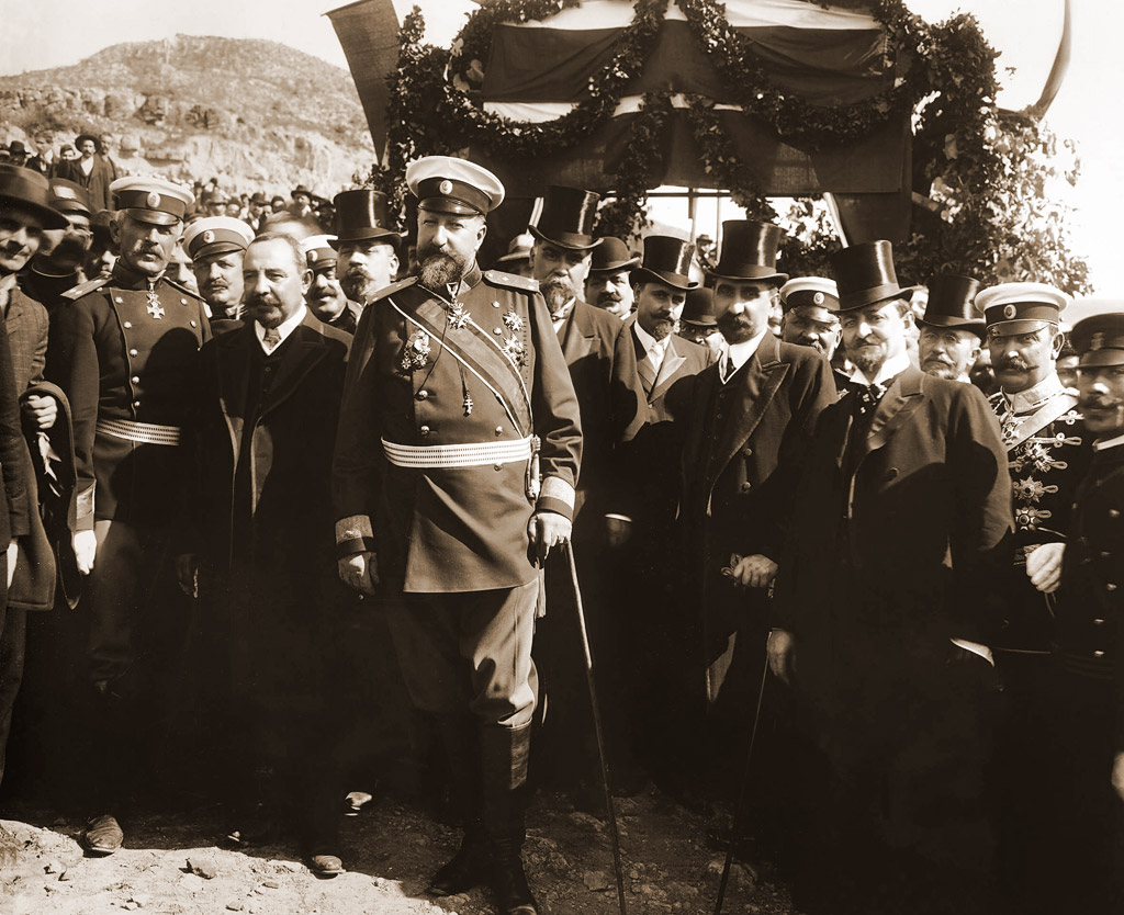 His Tzarist Majesty Ferdinand I of Bulgaria at the proclamation of Bulgarian independence.